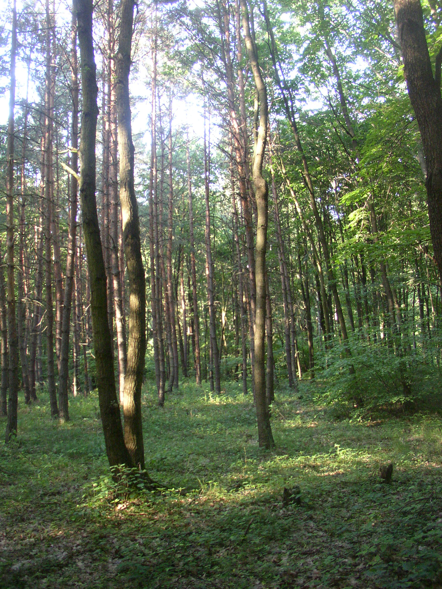 Pašijová draha nature reserve near Libušín, Kladno District, Czech Republic.